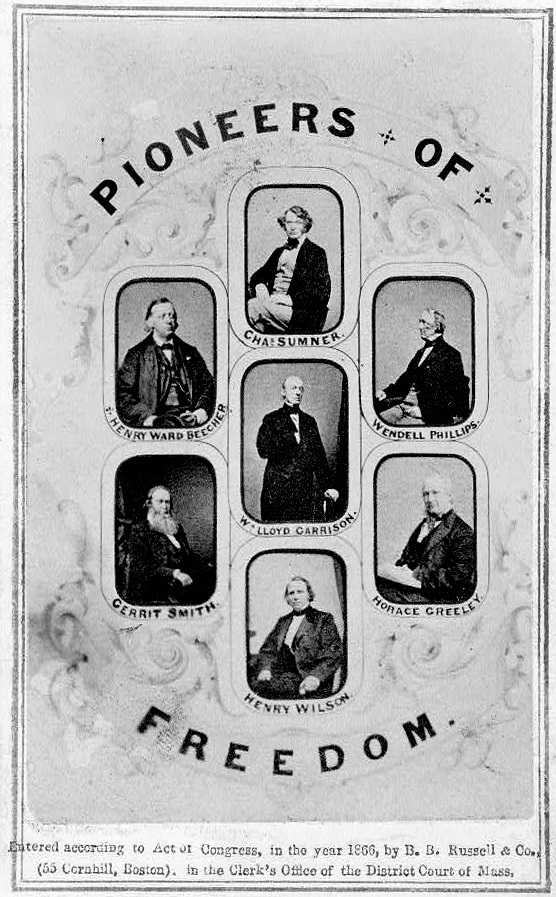 Pioneers of Freedom (Free Soil Party Leaders)